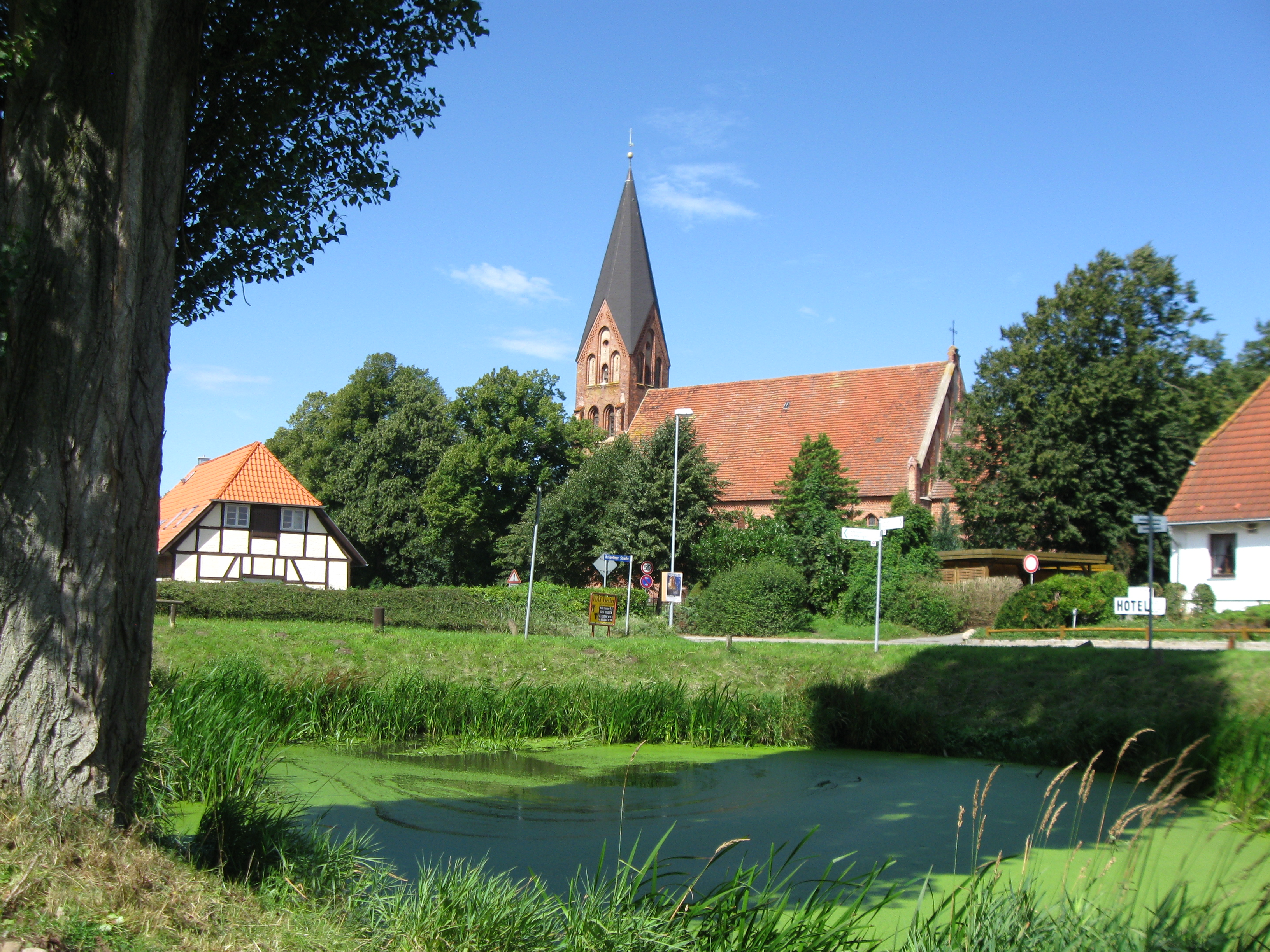 View of Steffenshagen